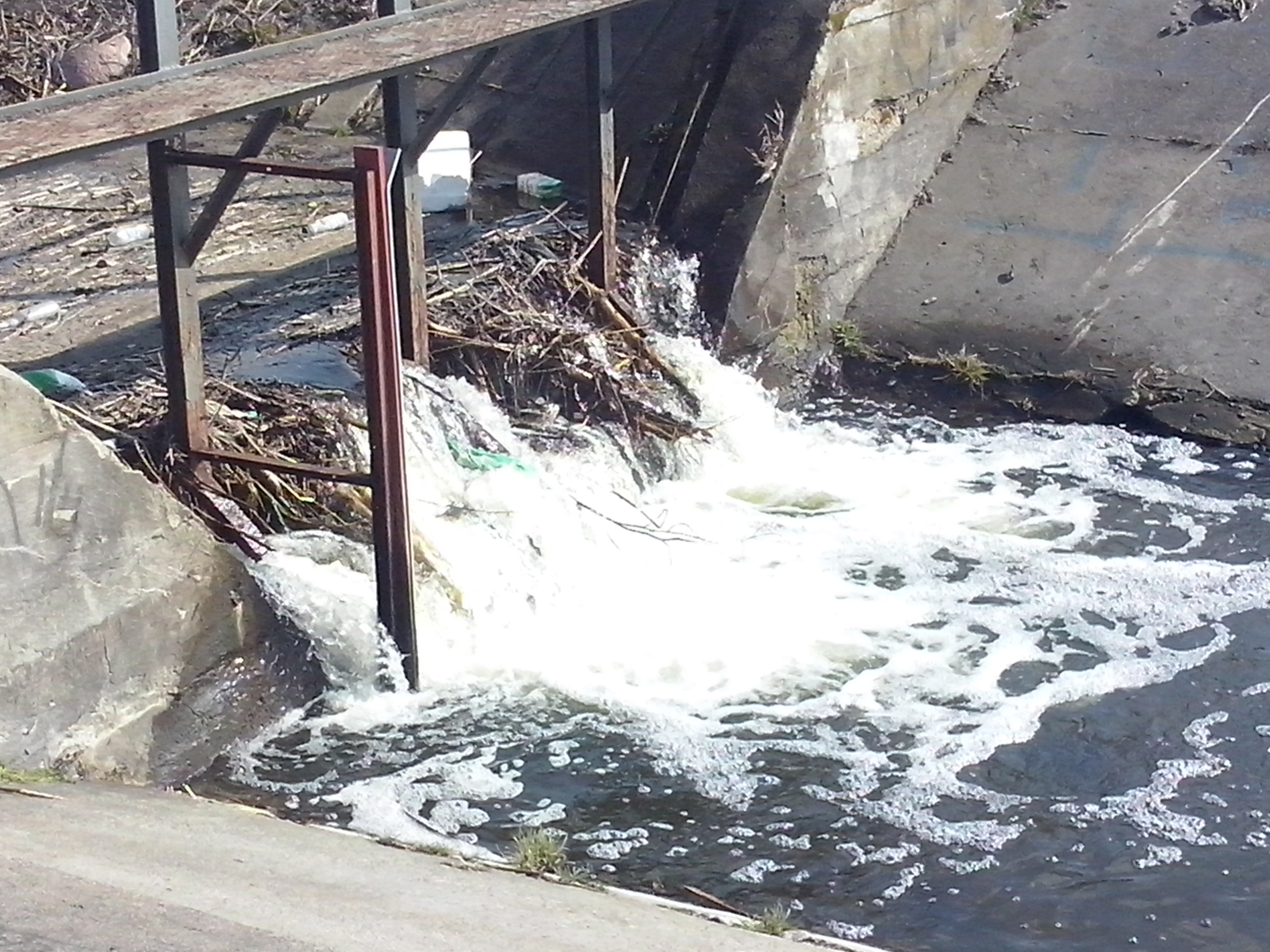 Rgilewka River in Cząstków